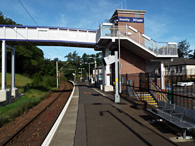 View past the footbridge towards Wemyss Bay.